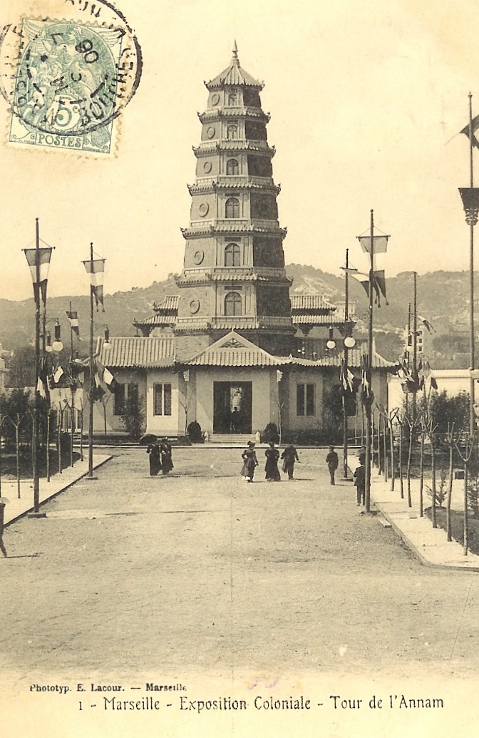 Postcard of the Annam Tower created for the 1906 Colonial exhibition in Marseilles, France.